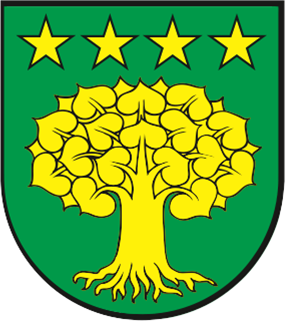 Coat of arms of the municipality of Bözberg (as of 2013)